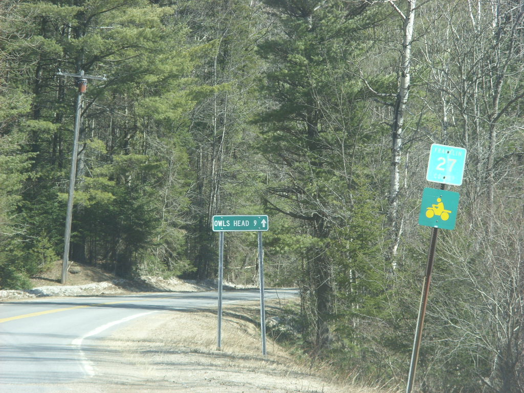 Former signage for Franklin County Route 27 in New York.